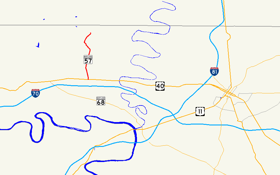 Map of Maryland Route 57